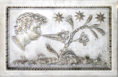 Eolo, keeper of the winds (digital enhancement of an old marble representaiton)